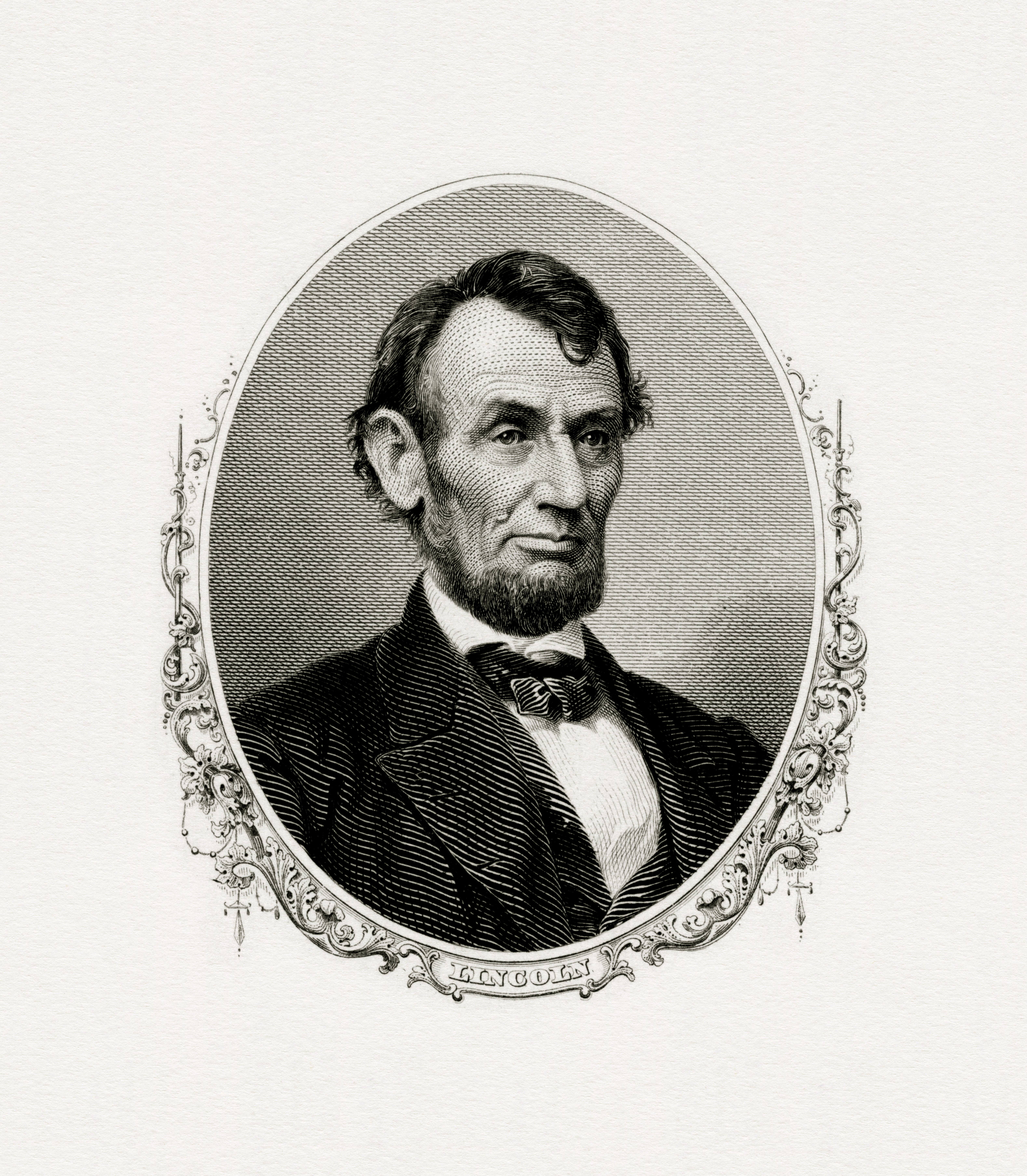 Engraved BEP portrait of U.S. President Abraham Lincoln